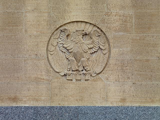 Exterior detail of an eagle on the United States Courthouse in Davenport, Iowa.